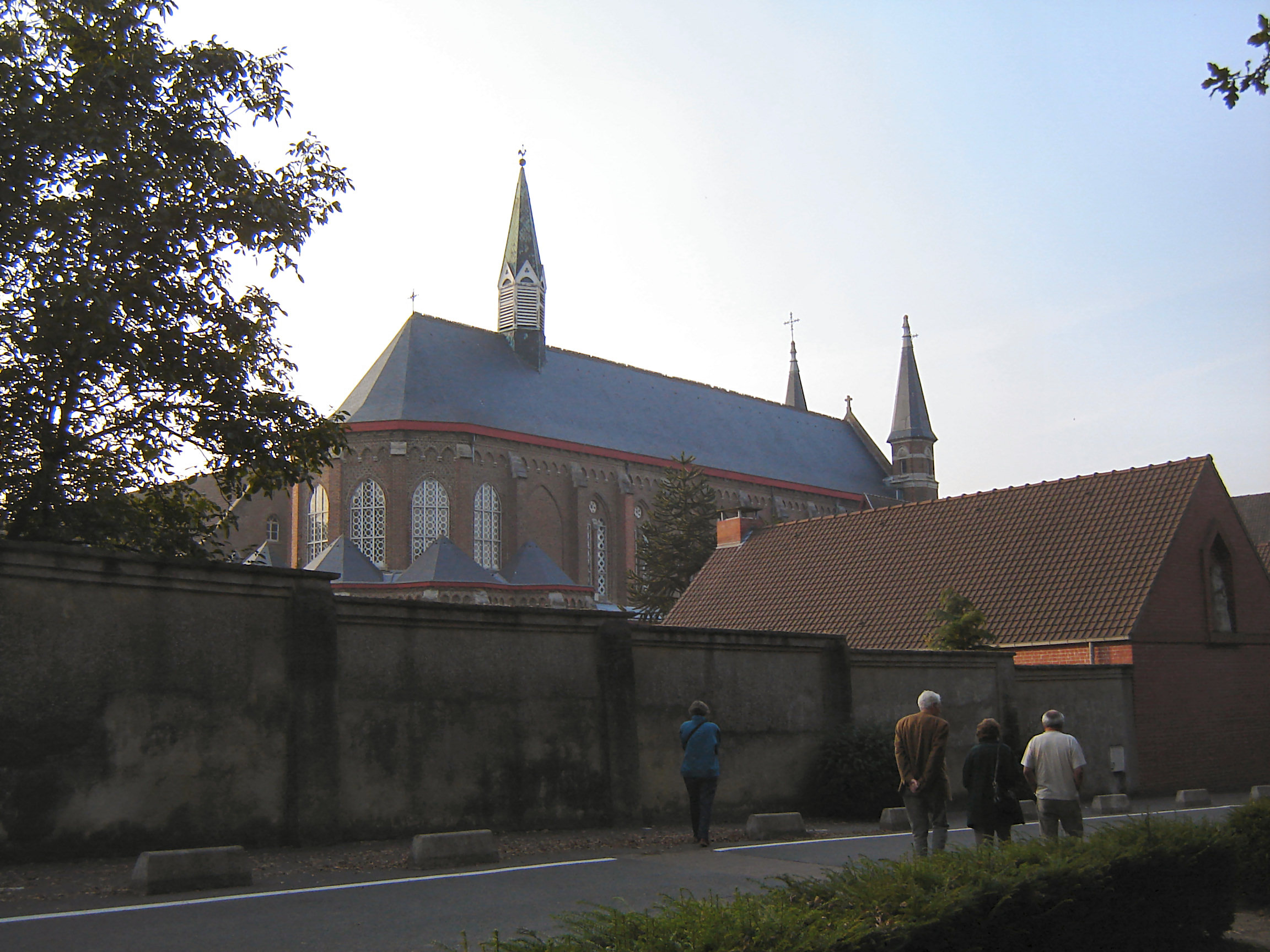 Church of Saint Bernard of the Abbaye du Mont des Cats (Mont des Cats abbey). Godewaersvelde, Nord, Nord-Pas-de-Calais, France